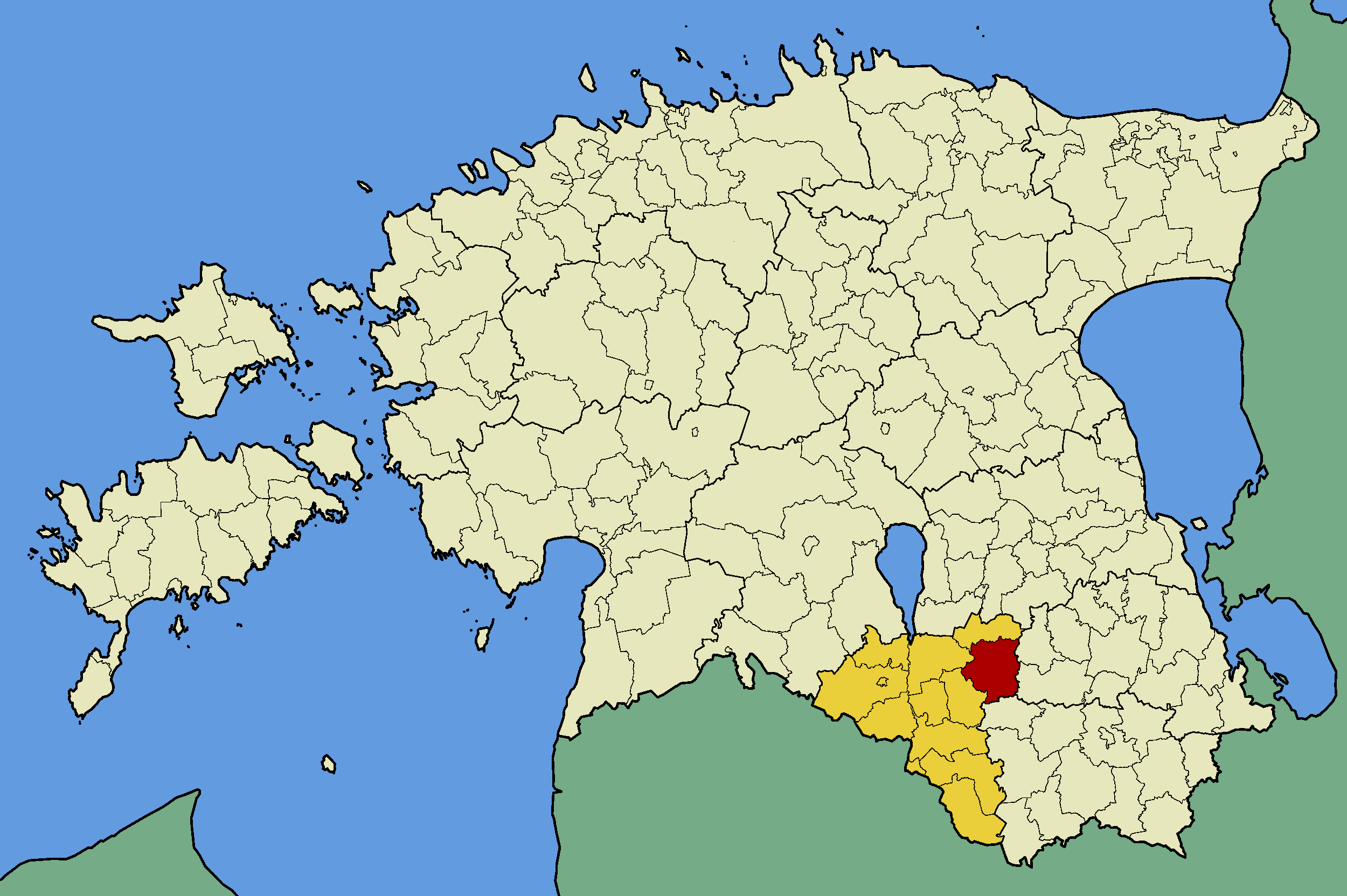 Map of Estonia with borders of municipalities (parishes). Valga county and Otepää municipality emphasized.